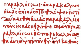 Facsimile of 2 Corinthians 1:3-5 (after Scrivener)